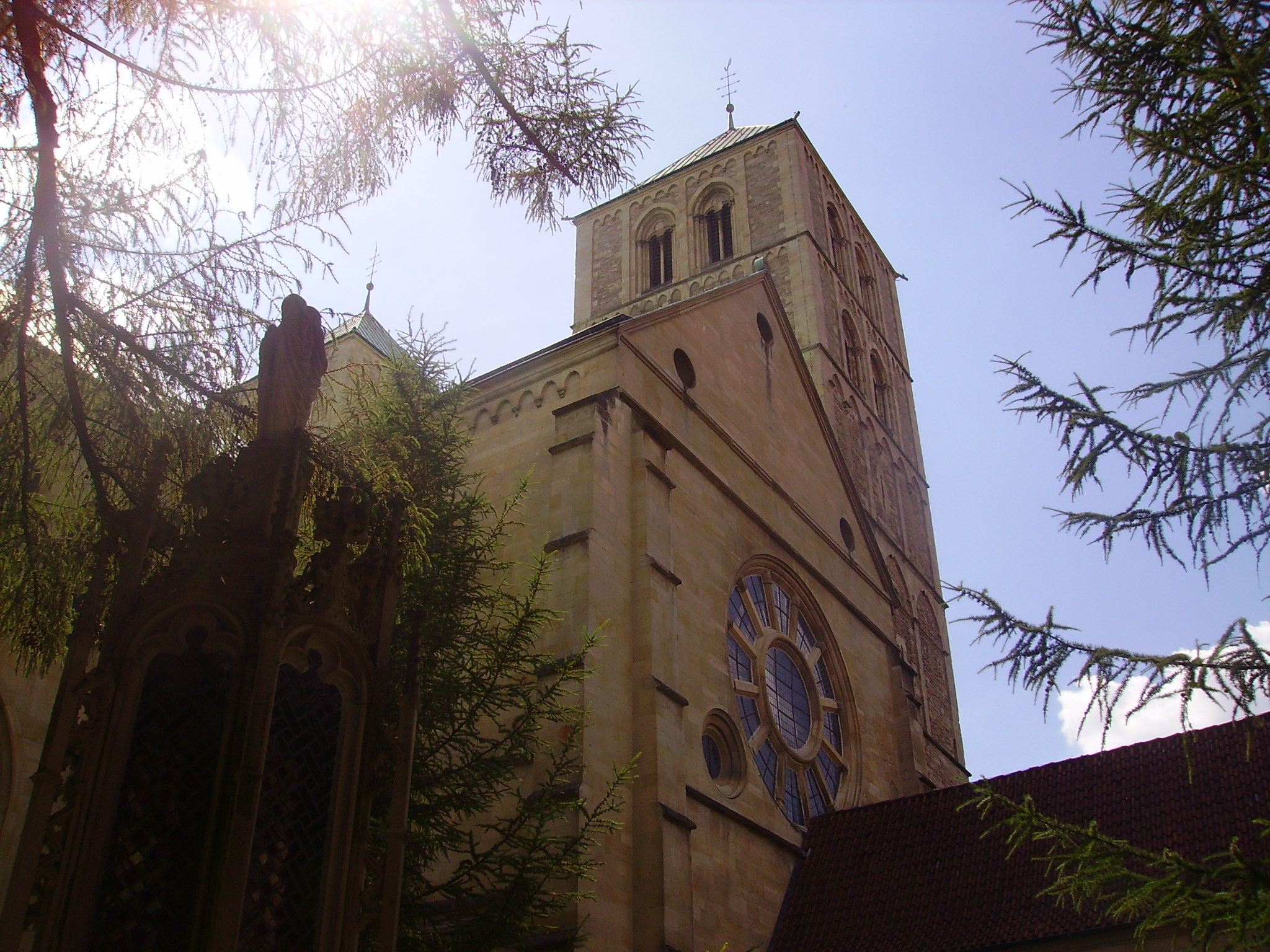 Catholic Cathedral/Minster St. Paulus, Münster